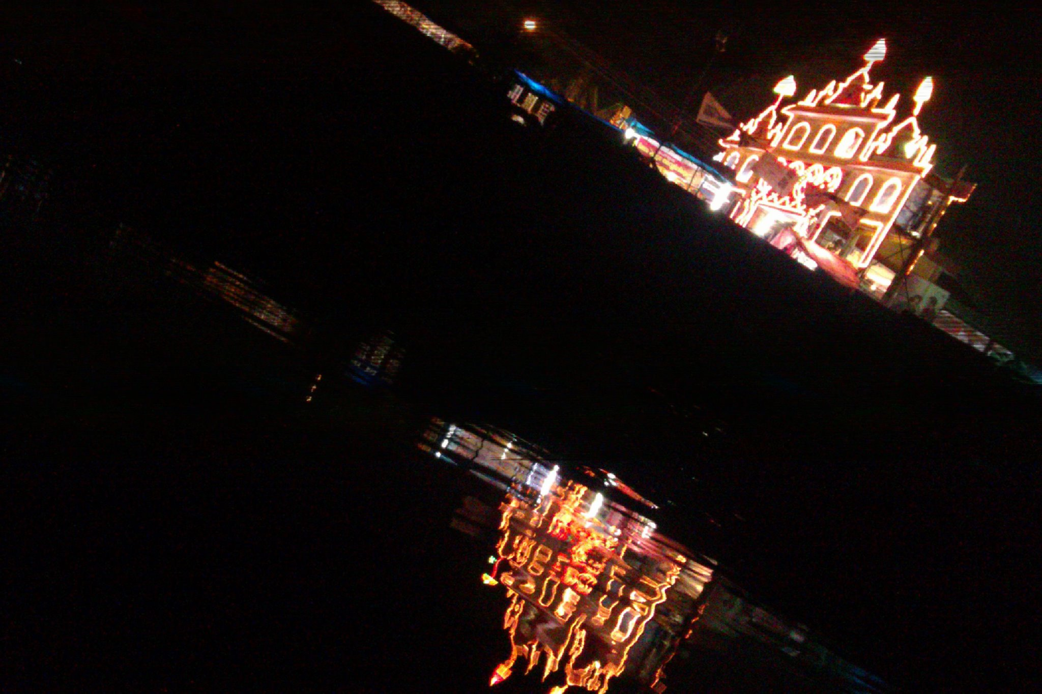 it is the picture of sreevalabha temple taken during the time of uthsavam. by Ashik Dileep, Thiruvalla